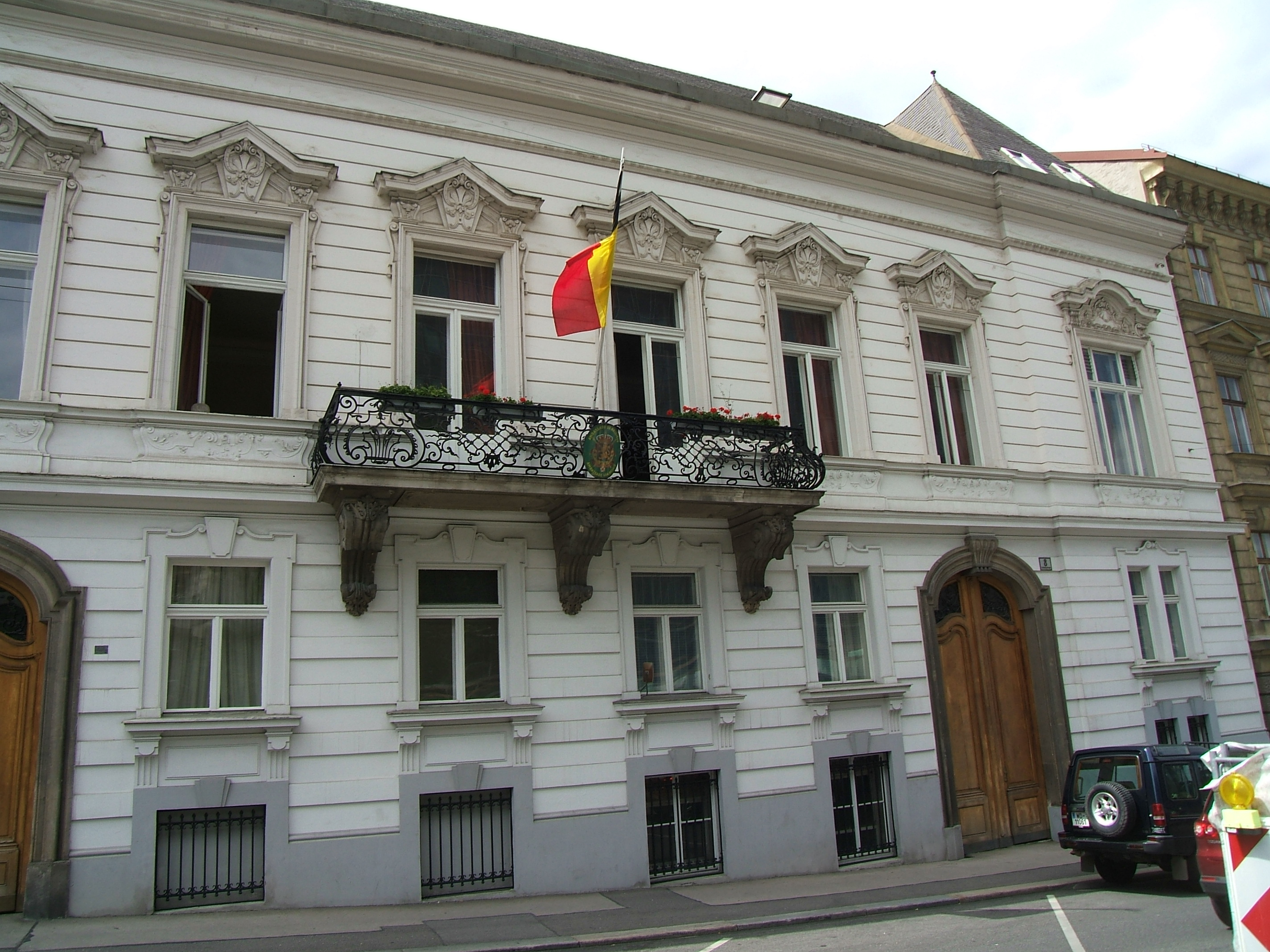 Palais Hohenlohe-Bartenstein in Vienna 4th district Schönburgstraße 8-10, embassy of Belgium